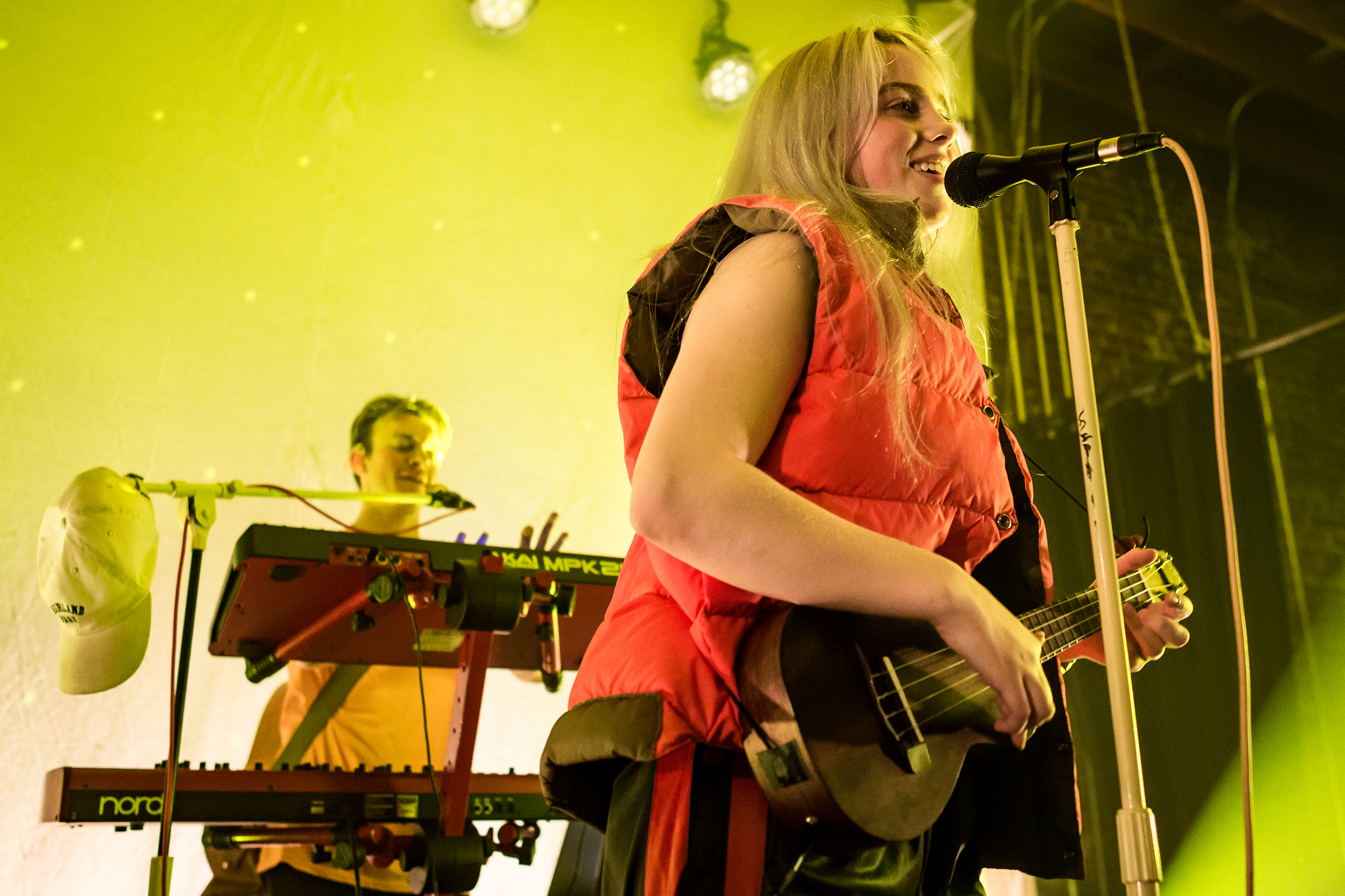 Billie Eilish performing live at The Hi Hat in Highland Park, Los Angeles, California, on Thursday, August 10, 2017.